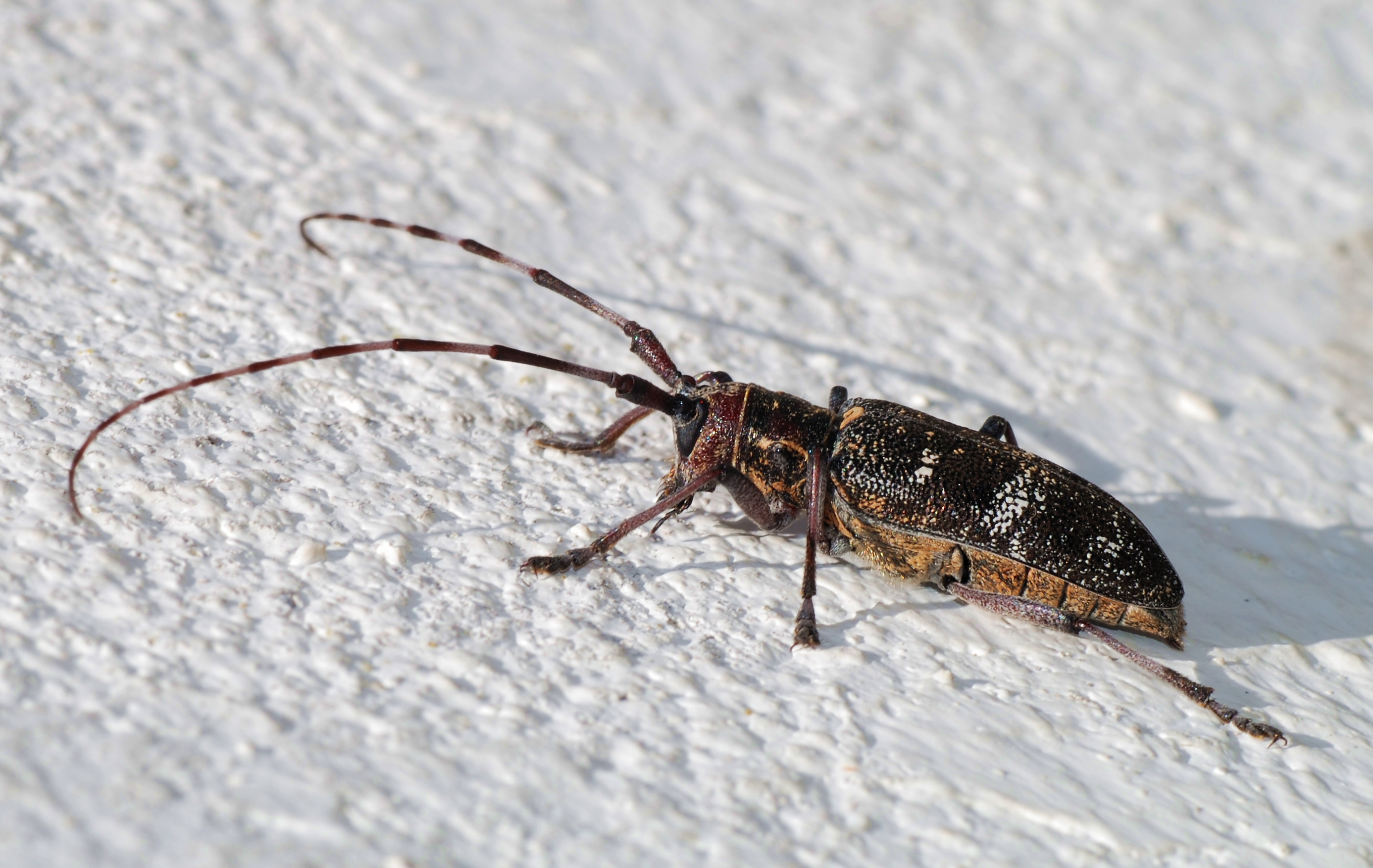 A longhorn beetle (Monochamus galloprovincialis).